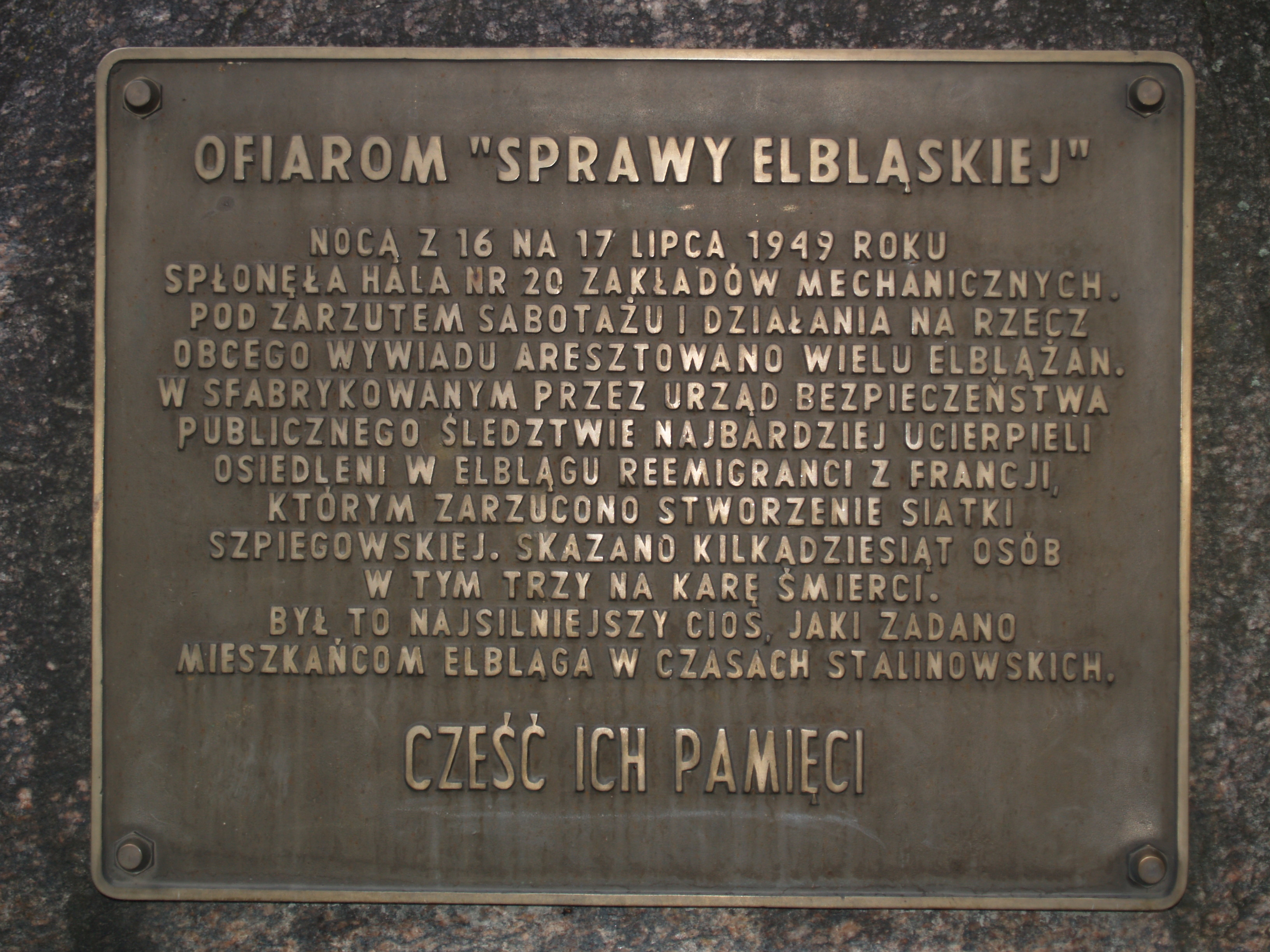 Victims of Elbląg Case Square, Memorial Tablet